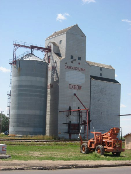 Decomissioned Saskatchewan Wheat Pool grain elevator on Saskatchewan Highway 18, Oxbow, Saskatchewan.